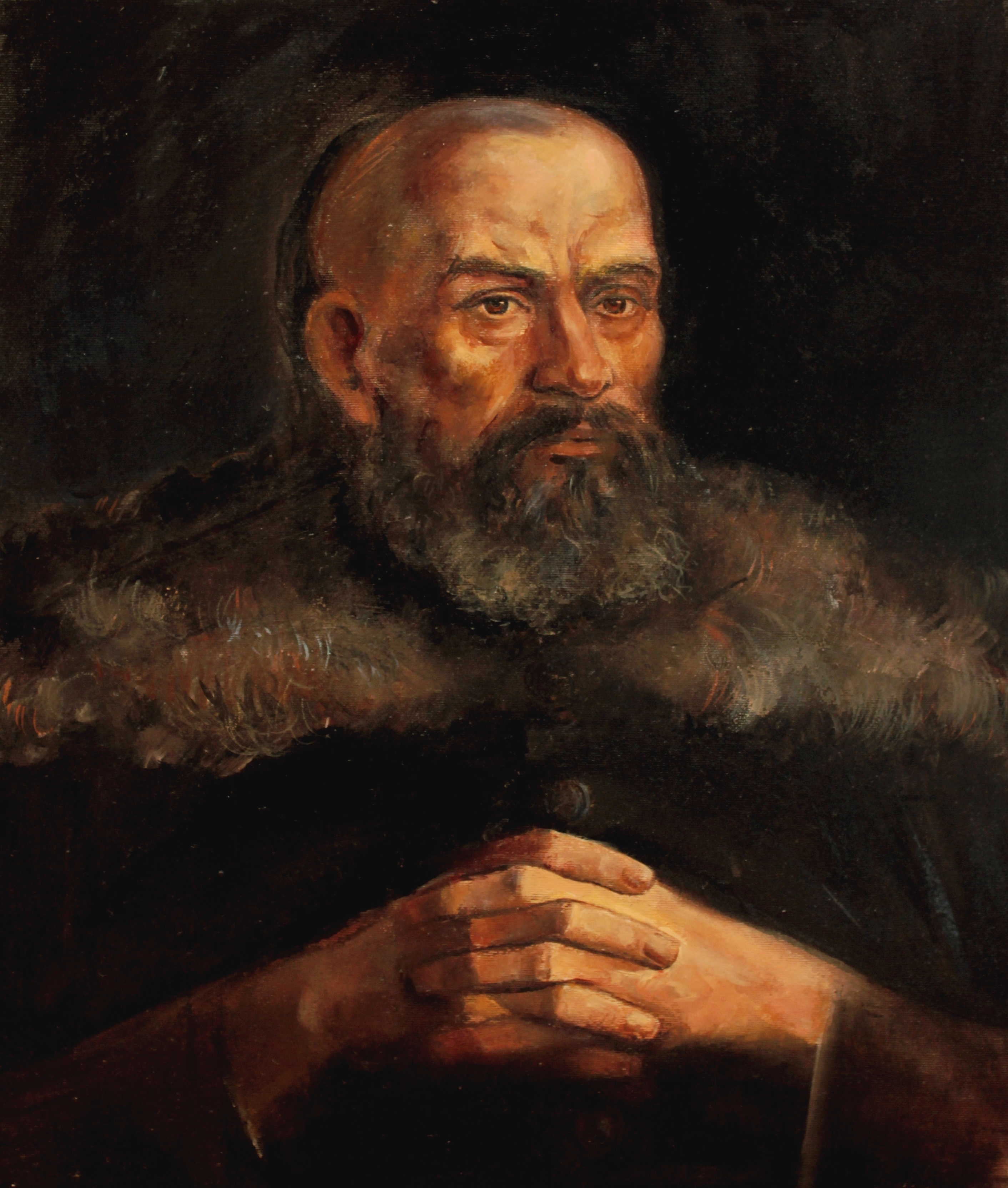 Theodore Ballina of Bulgaria, painting by anonymous author, late XIX century, Sofia Art Gallery.